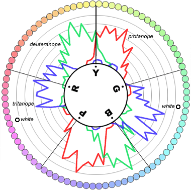 Description of common colorblindness by color region on the 100 Hues wheel.